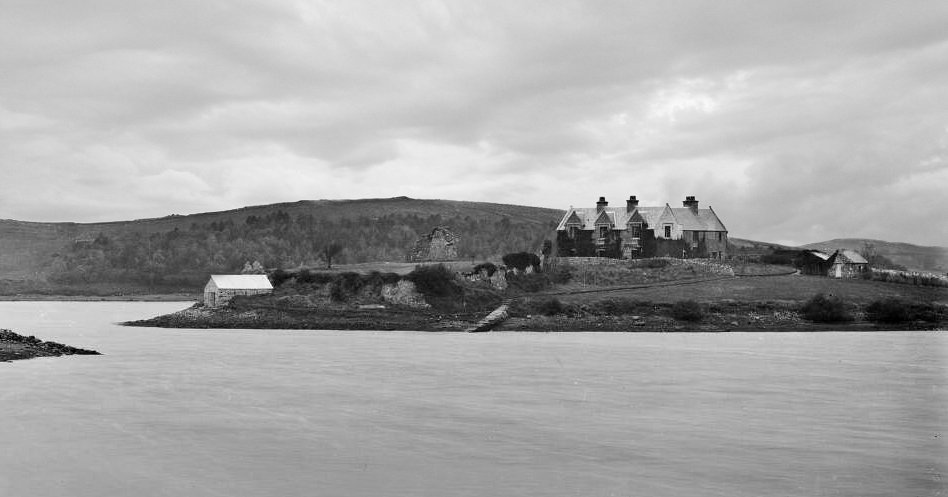 Burrishoole House, county Mayo, Ireland, built by Capt Alexander Wadham Wyndham